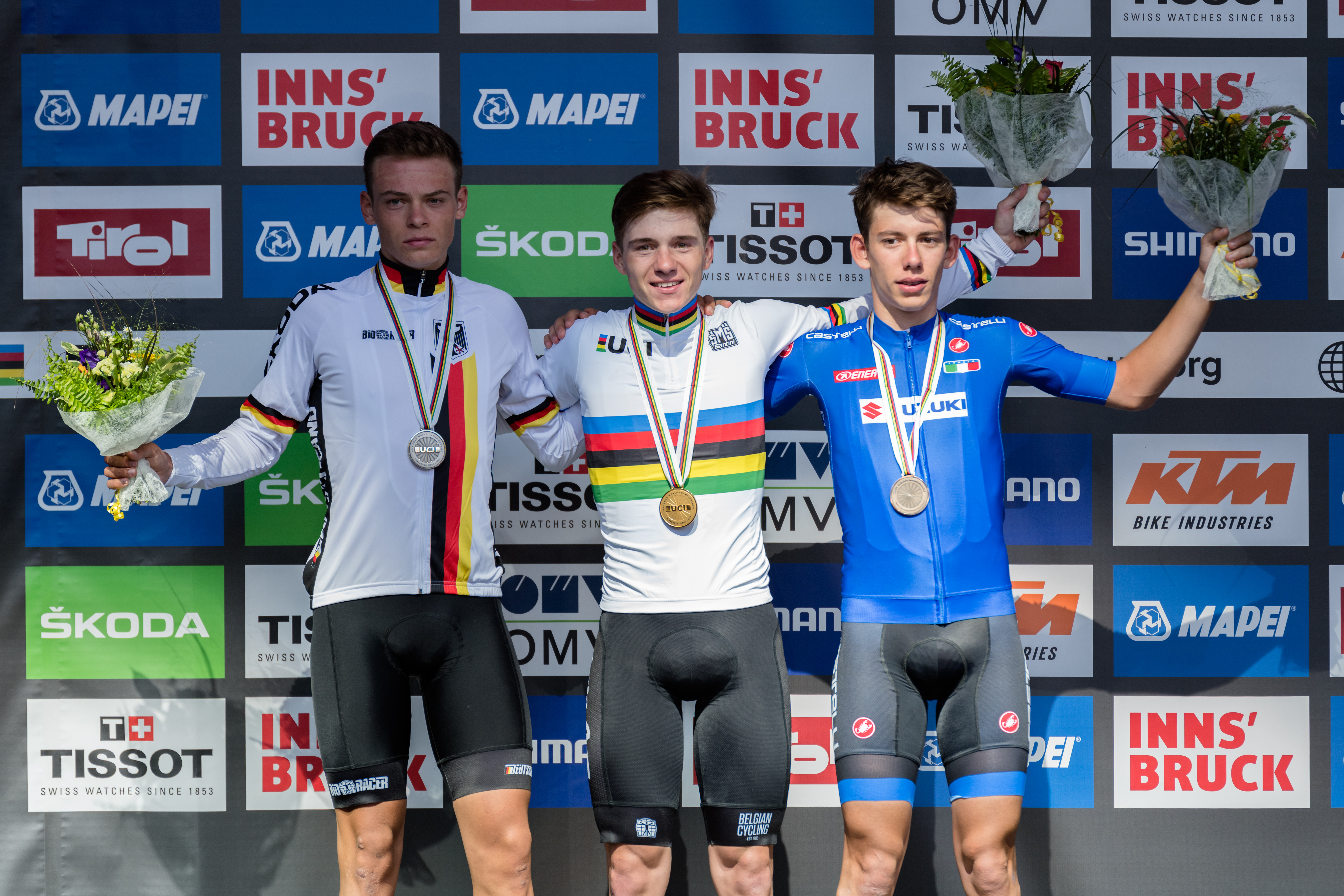 2018 UCI Road World Championships Innsbruck/Tirol Men Juniors Road Racel. Picture shows: Marius Mayrhofer of Germany, winner Remco Evenepoel of Belgium and Alessandro Fancellu of Italy